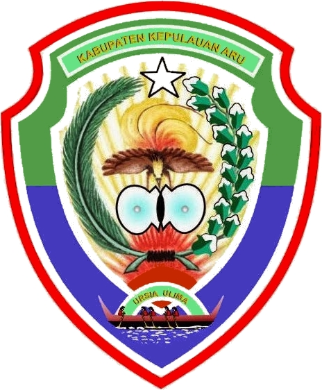 Coats of arms of Aru Islands Regency